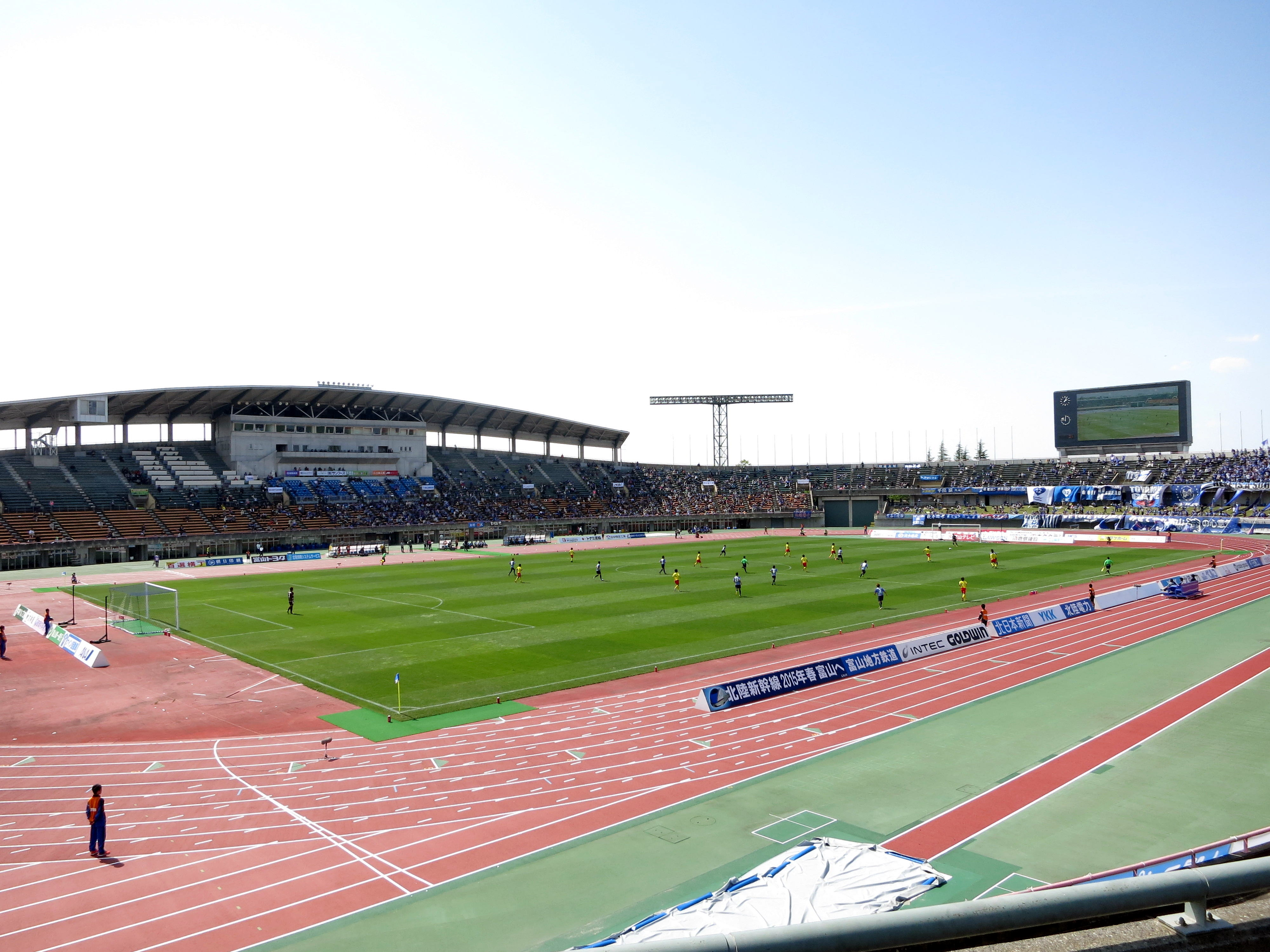 Toyamaken Sougou Athletics park